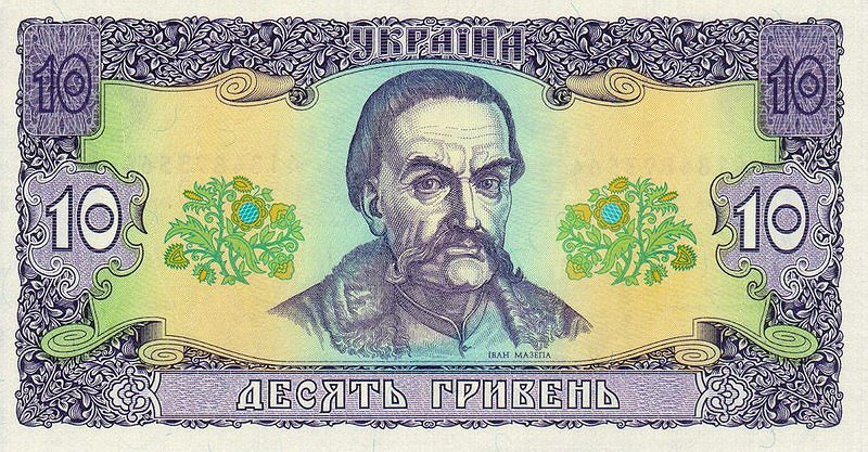 Ukraine 10 Hryvna 1992 front